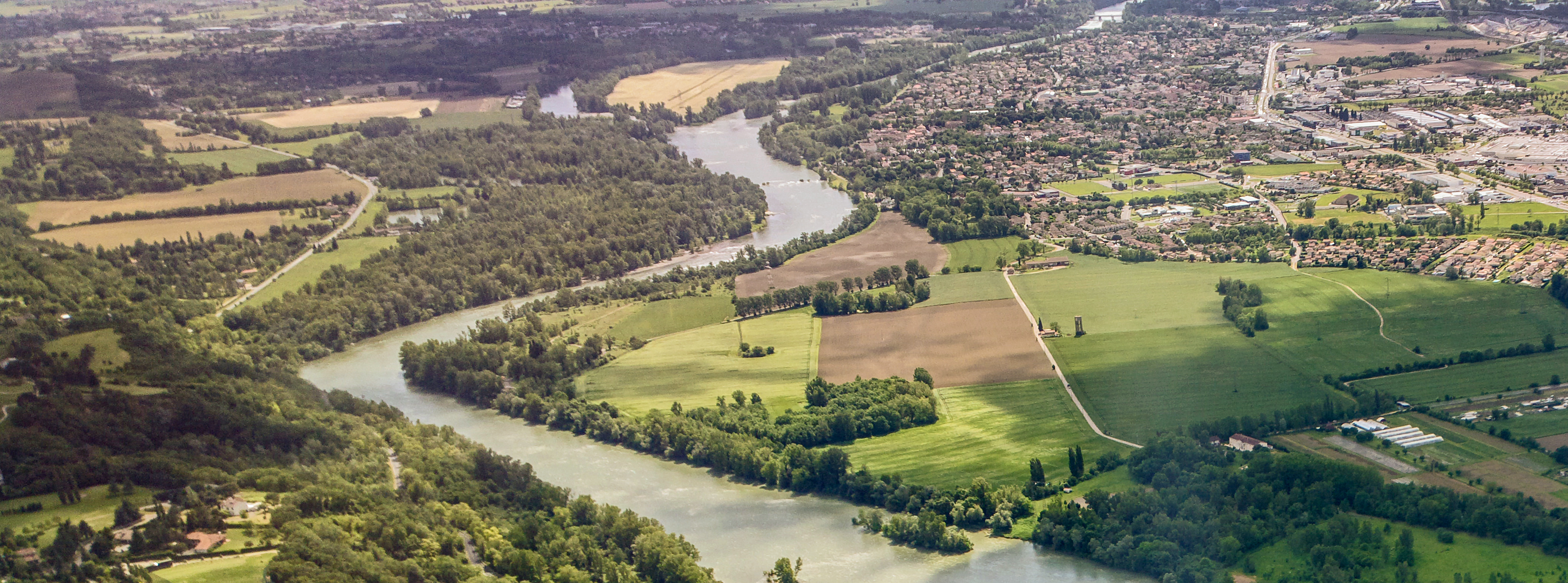 Regional Nature Reserve, Confluence Garonne-Ariège, Haute-Garonne, France. Aerial view.